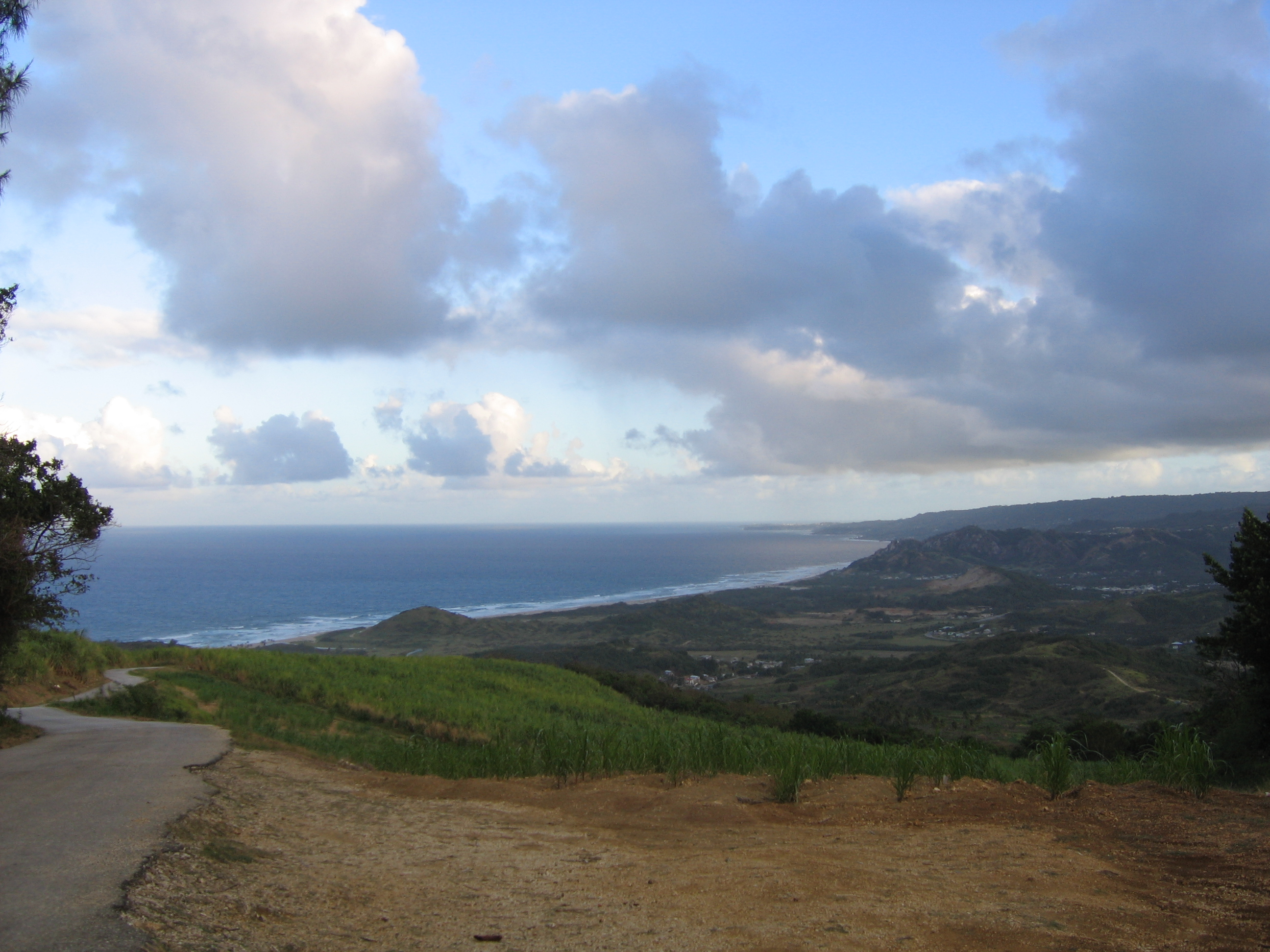 View southeast along Atlantic coast, from Cherry Tree Hill. Saint Andrew, Barbados.